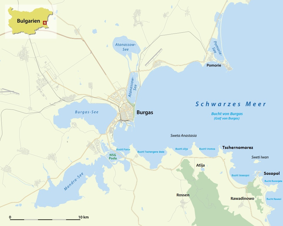 Map of the lakes near Burgas, Bulgaria